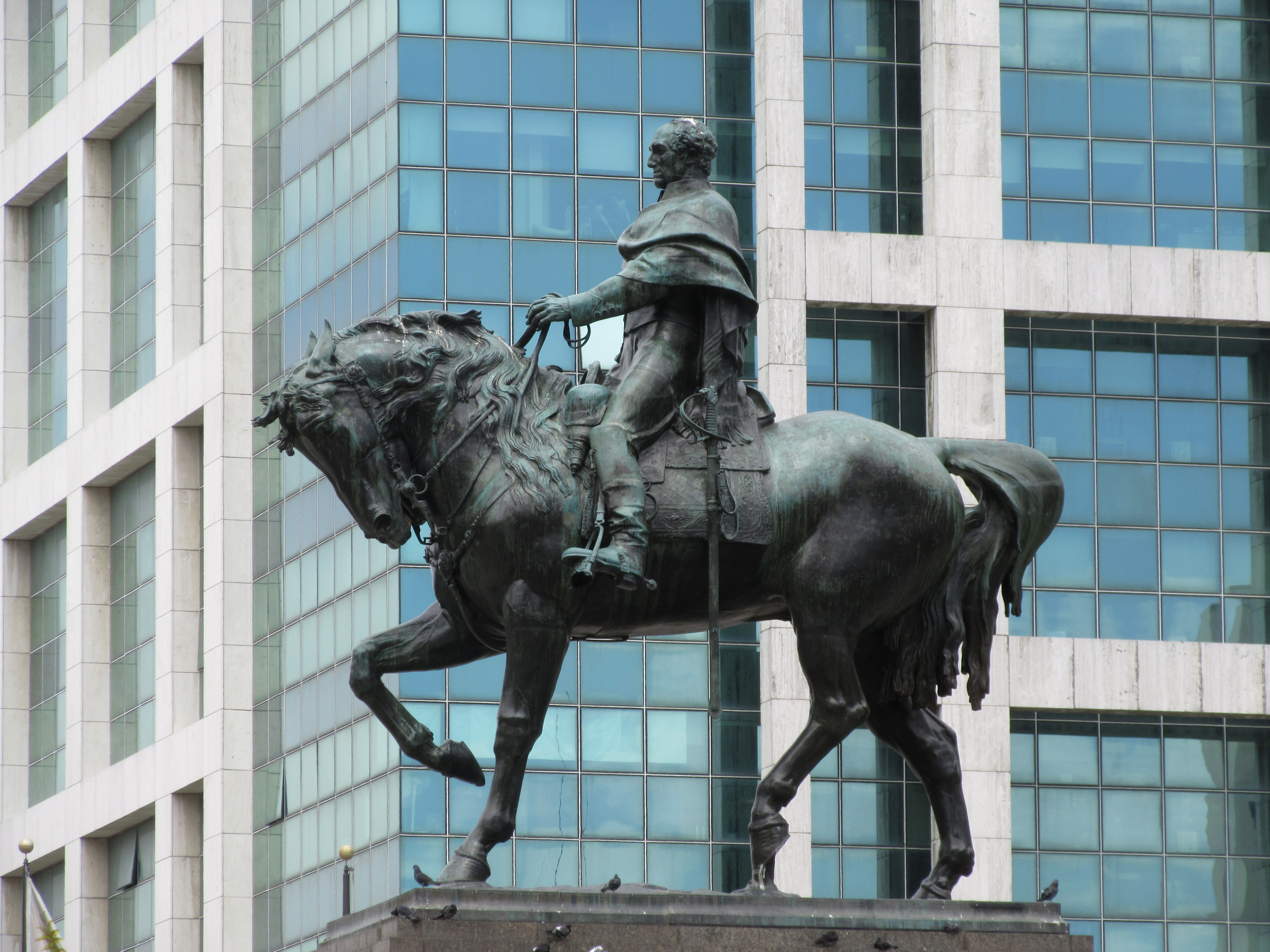 Montevideo